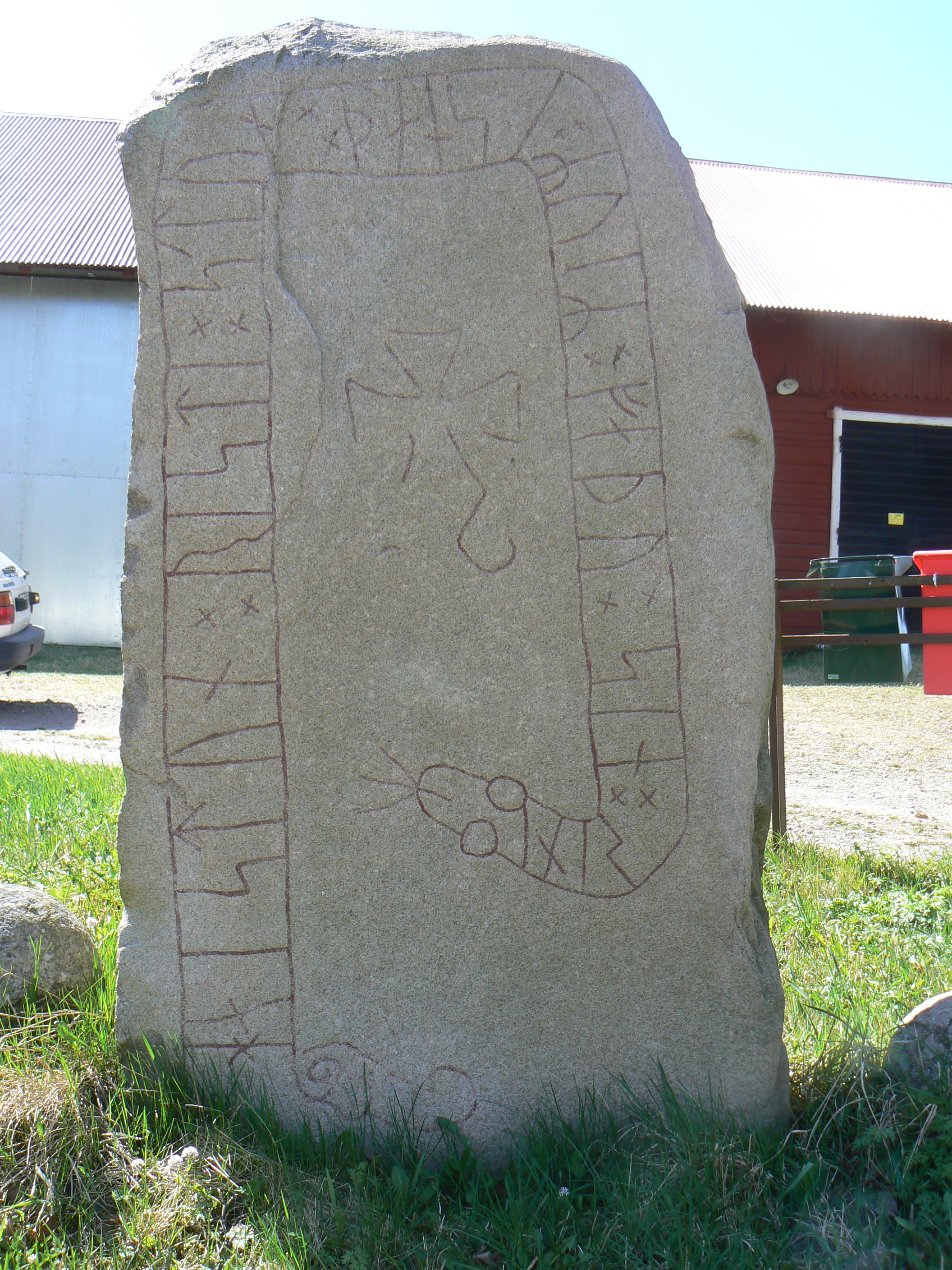 Östergötlands runinskrifter 170 ("Ög 170"), runestone at Gårdeby in Östergötland, Sweden.